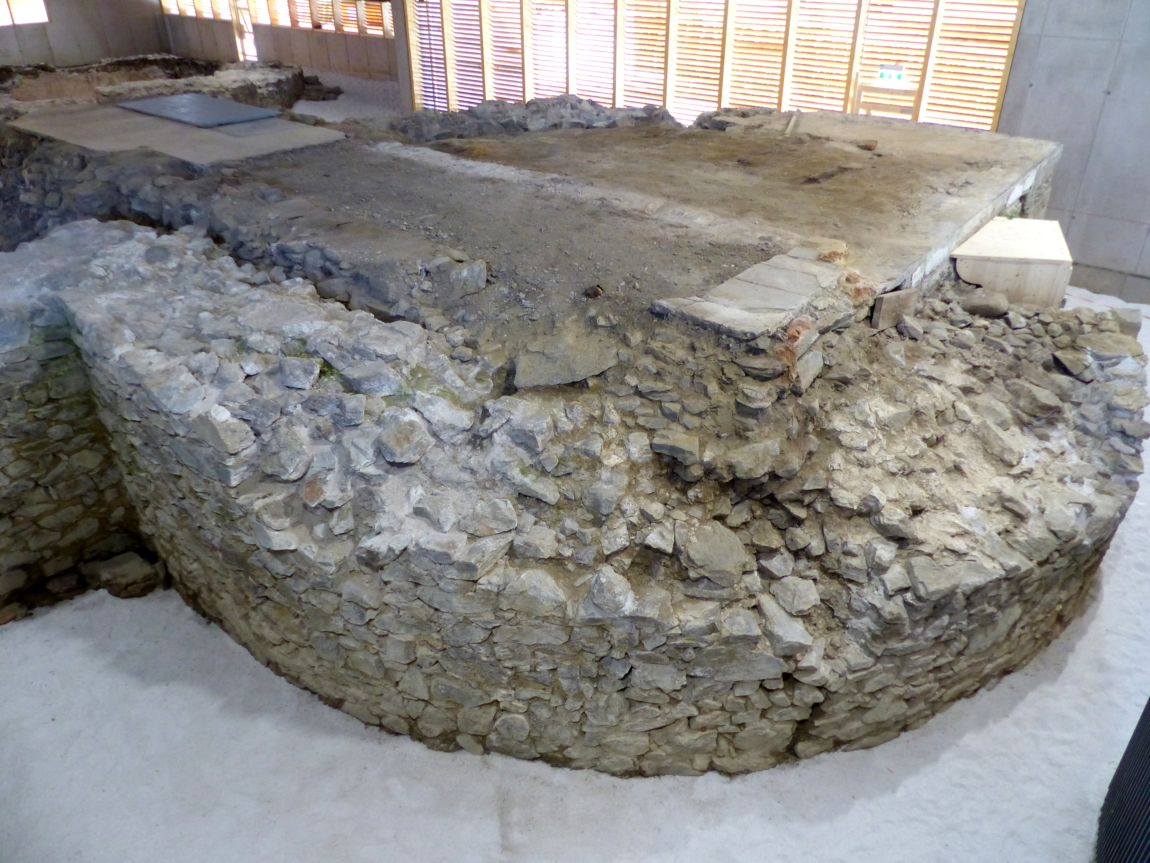 Ancient Roman fortress ( burgus ) in Oberranna ( Upper Austria ) - Northern tower ( 4th century AD ), used in medieval times as wine cellar.